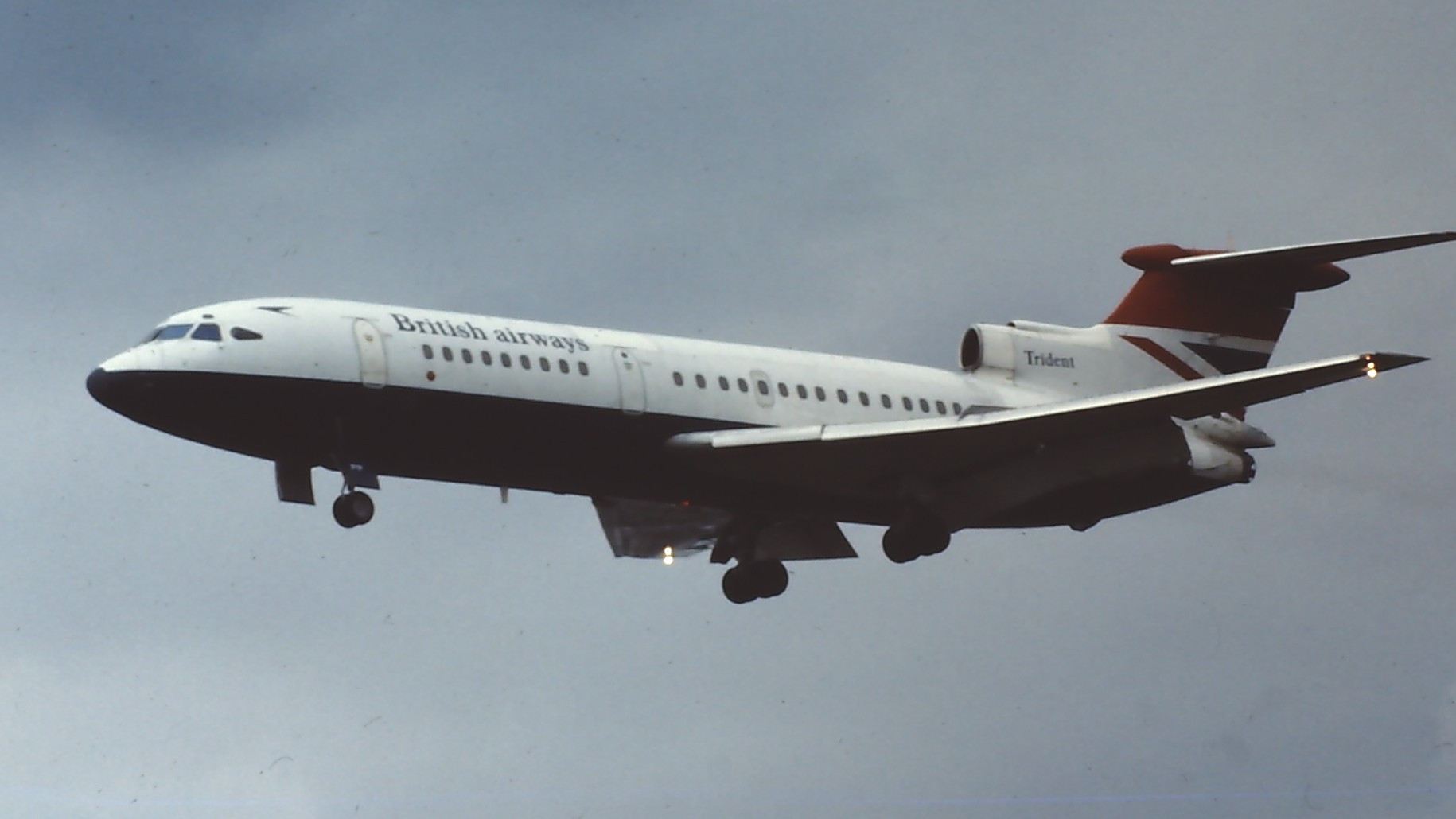 British Airways Hawker Siddeley Trident 1C, G-ARPP, on approach to London Heathrow Airport in the early 1980s